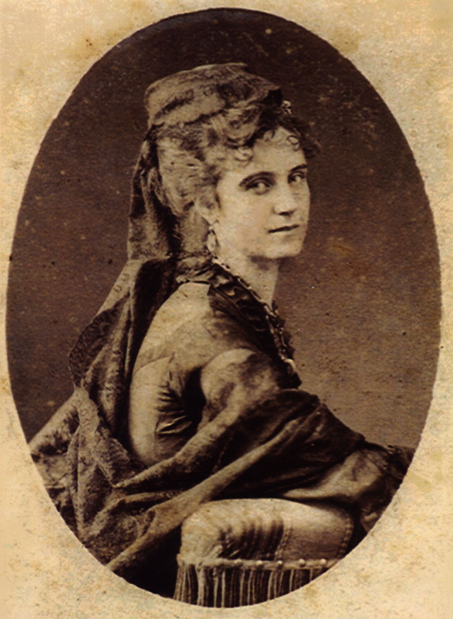 Emilia Bernacchi Classic Italian Ballerina, born March 19, 1846 in Milano, and died on 16 August 1902; Matriarch of Bernacchi of Rio de Janeiro, wife of Ernesto Perozzi, daughter of Fanny Bernacchi also Ballerina, mother of Arthuro, Augustus, Adda, Adriano, Armando and Angelo Bernacchi. Buried in Rio de Janeiro, São João Batista Cemetery, in the family vault. The Bernacchi this branch were Jewelers Cariocas, and Plastic Artists.